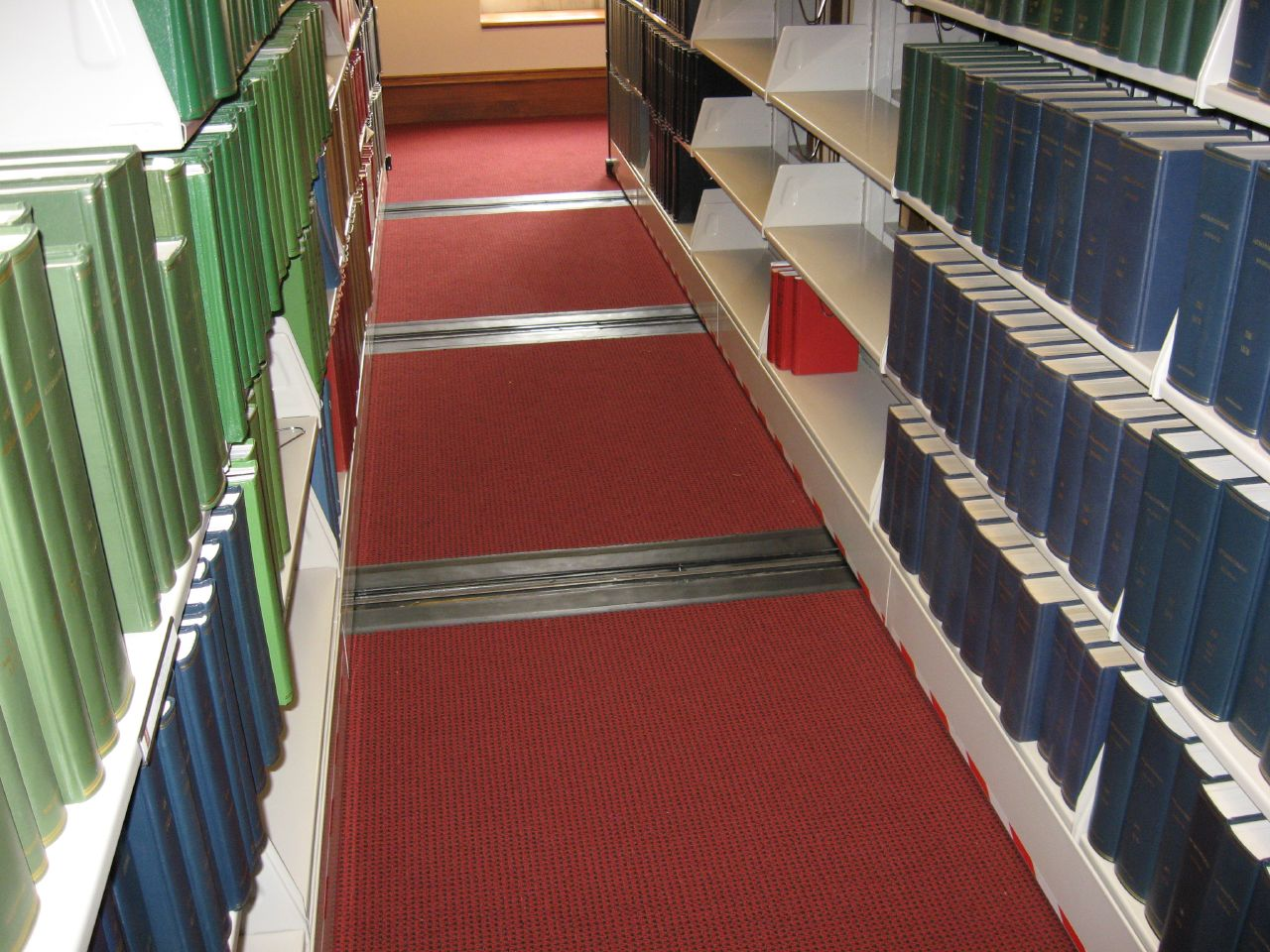 compact shelves, 3/4 of bound journal collection